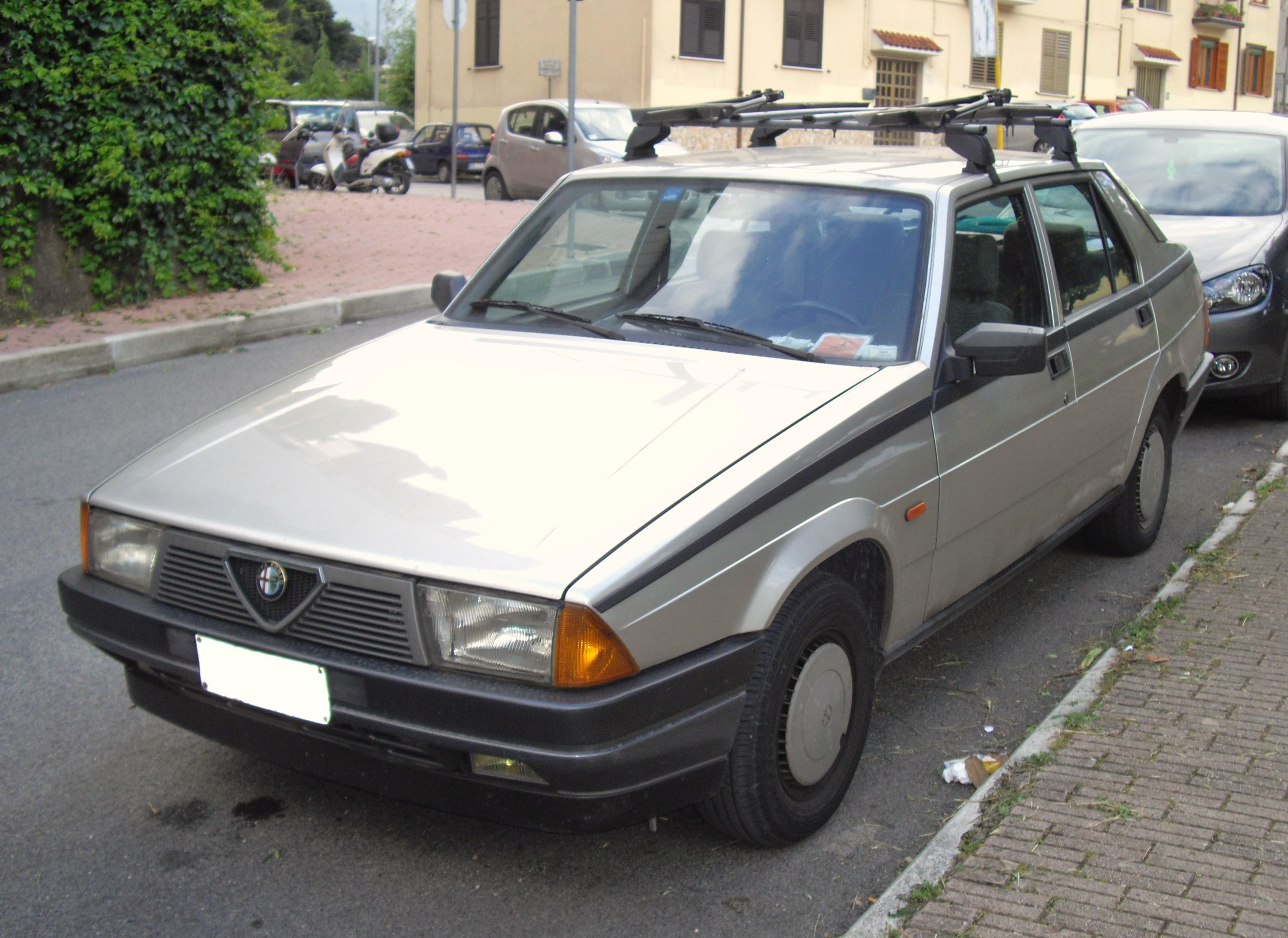 Alfa Romeo 75